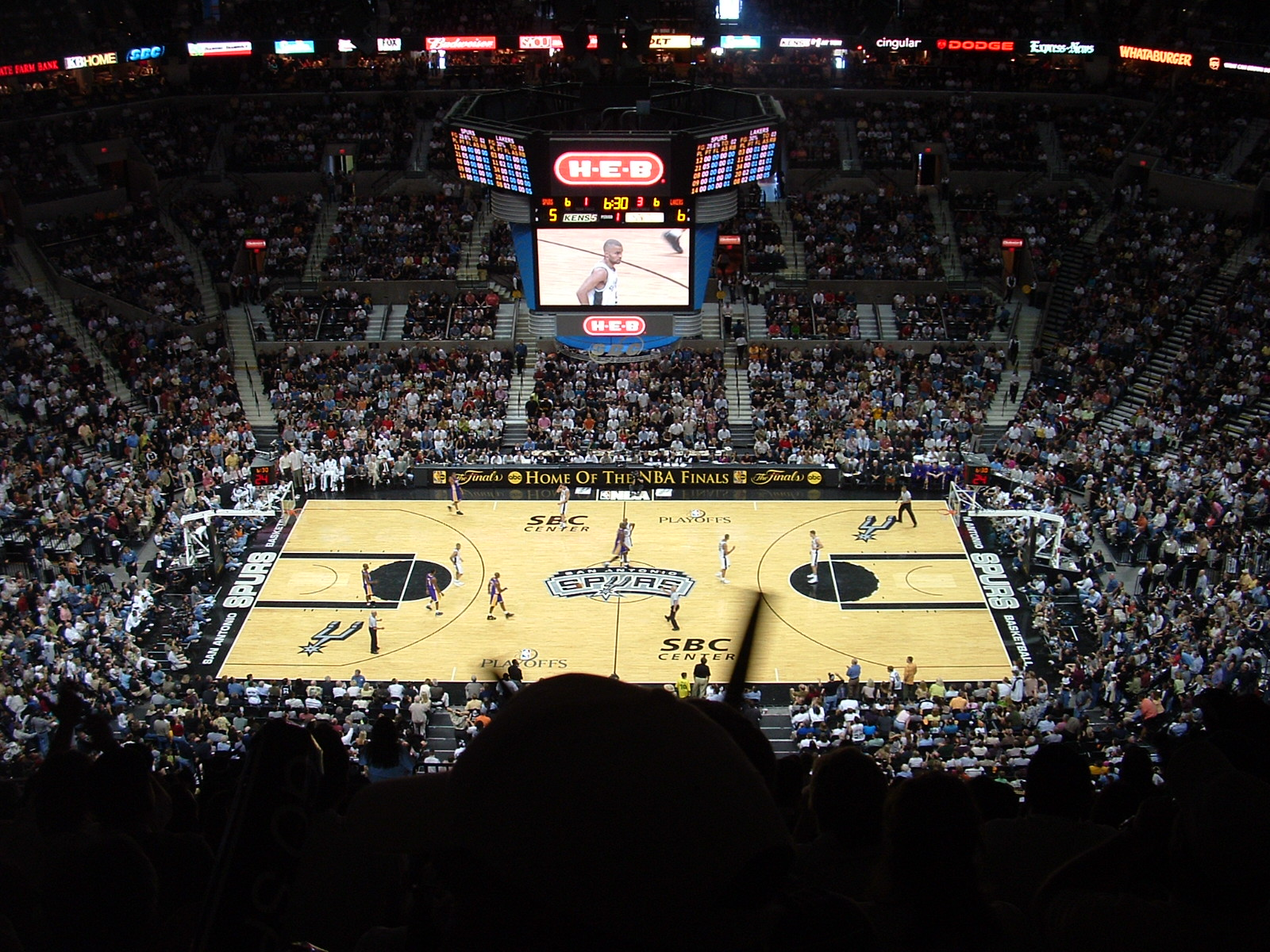 The San Antonio Spurs hosting the Los Angeles Lakers in the opening game of the 2004 NBA Playoffs Western Conference Semifinals at the SBC Center. San Antonio would go on to win Game 1 by a score of 88-78, but would lose the series to the eventual 2004 Western Conference Finals Champions Los Angeles Lakers.